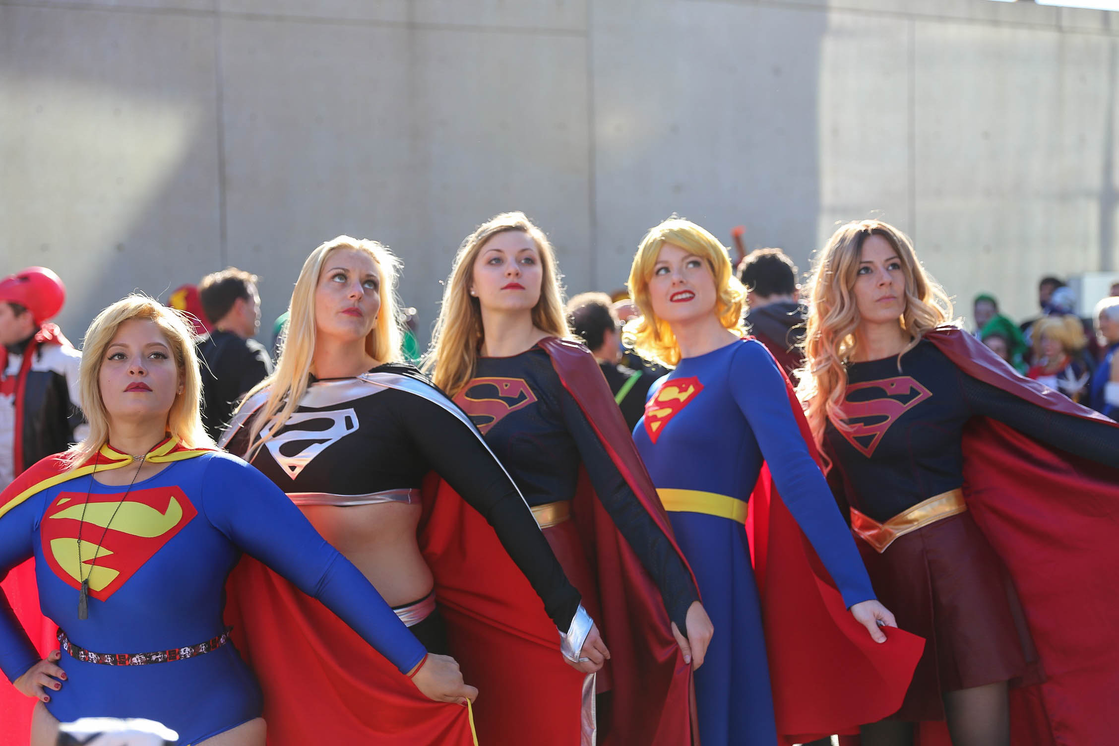 Cosplay at the 2016 New York Comic Con.